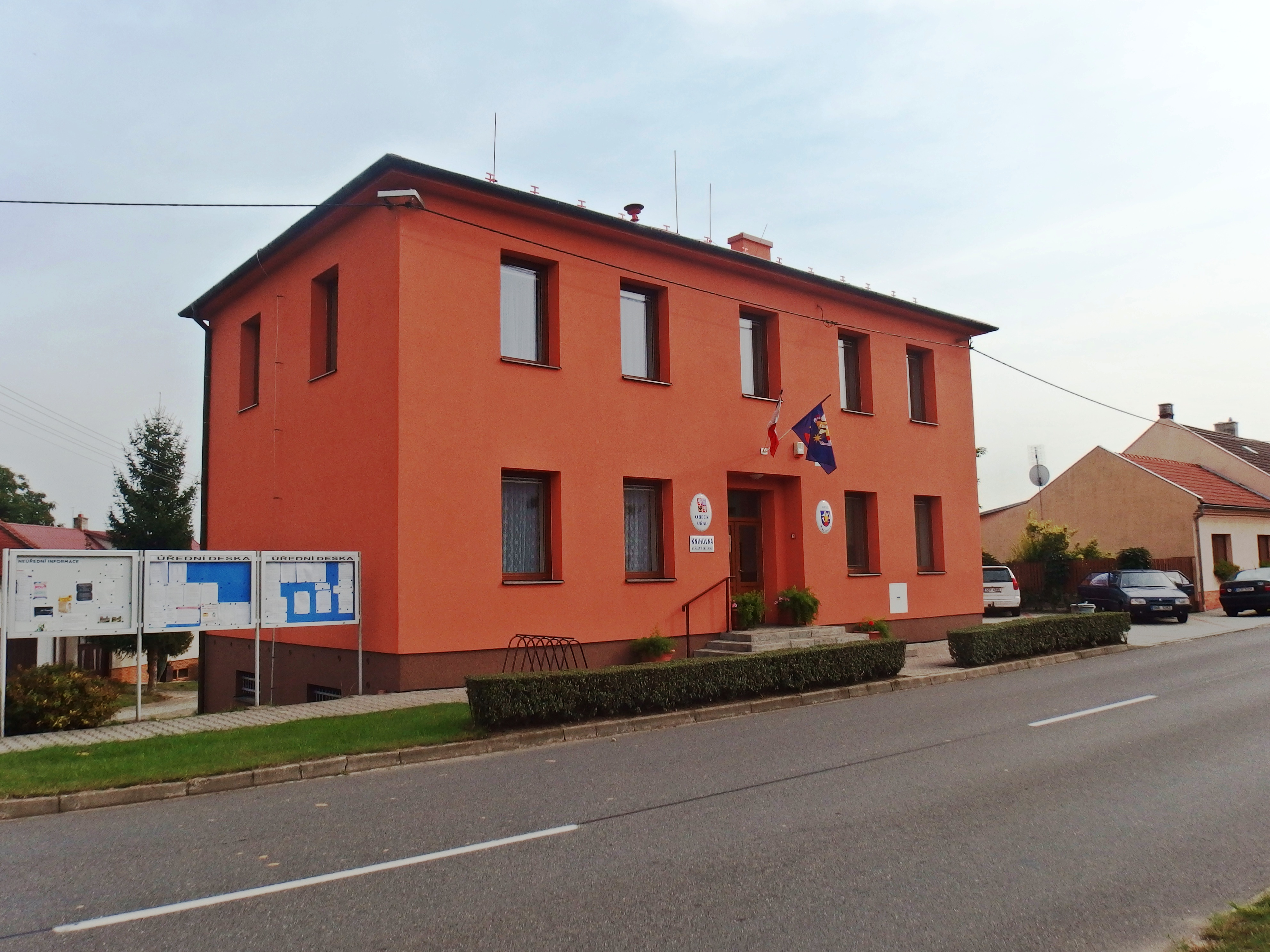 Machová in Zlín District, Czech Republic. Municipal office.